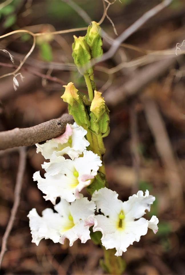 Harveya capensis Hook. - Table Mountain, South Africa